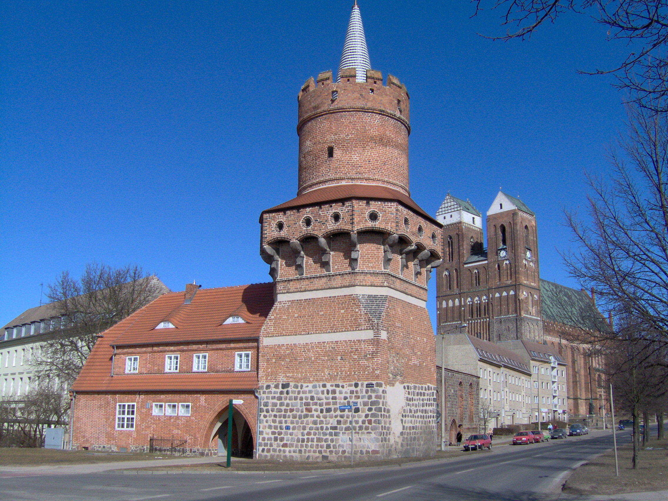 The Middle Gate Tower in Prenzlau, Germany. Self-made.